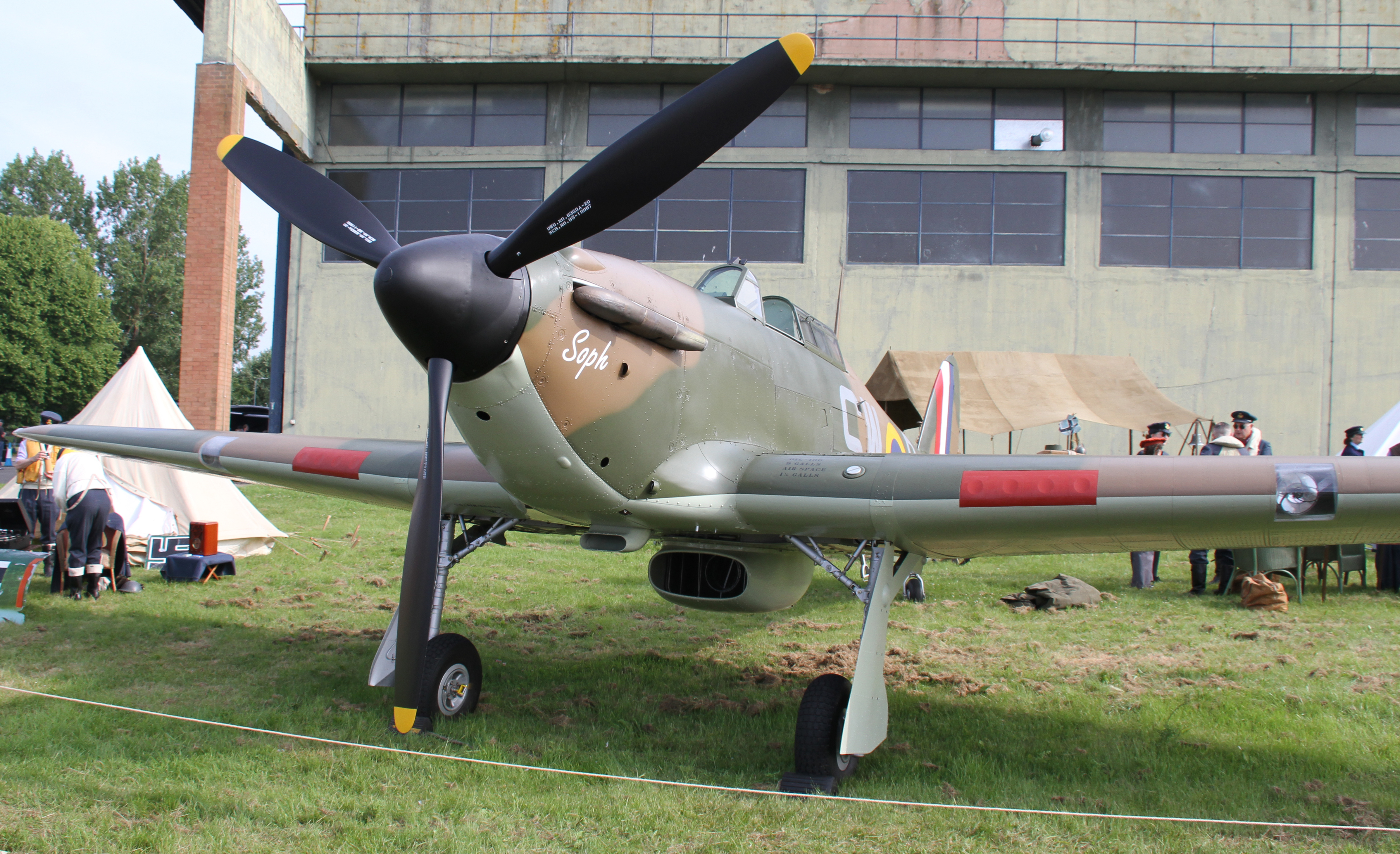 Hawker Hurricane Mk1 2